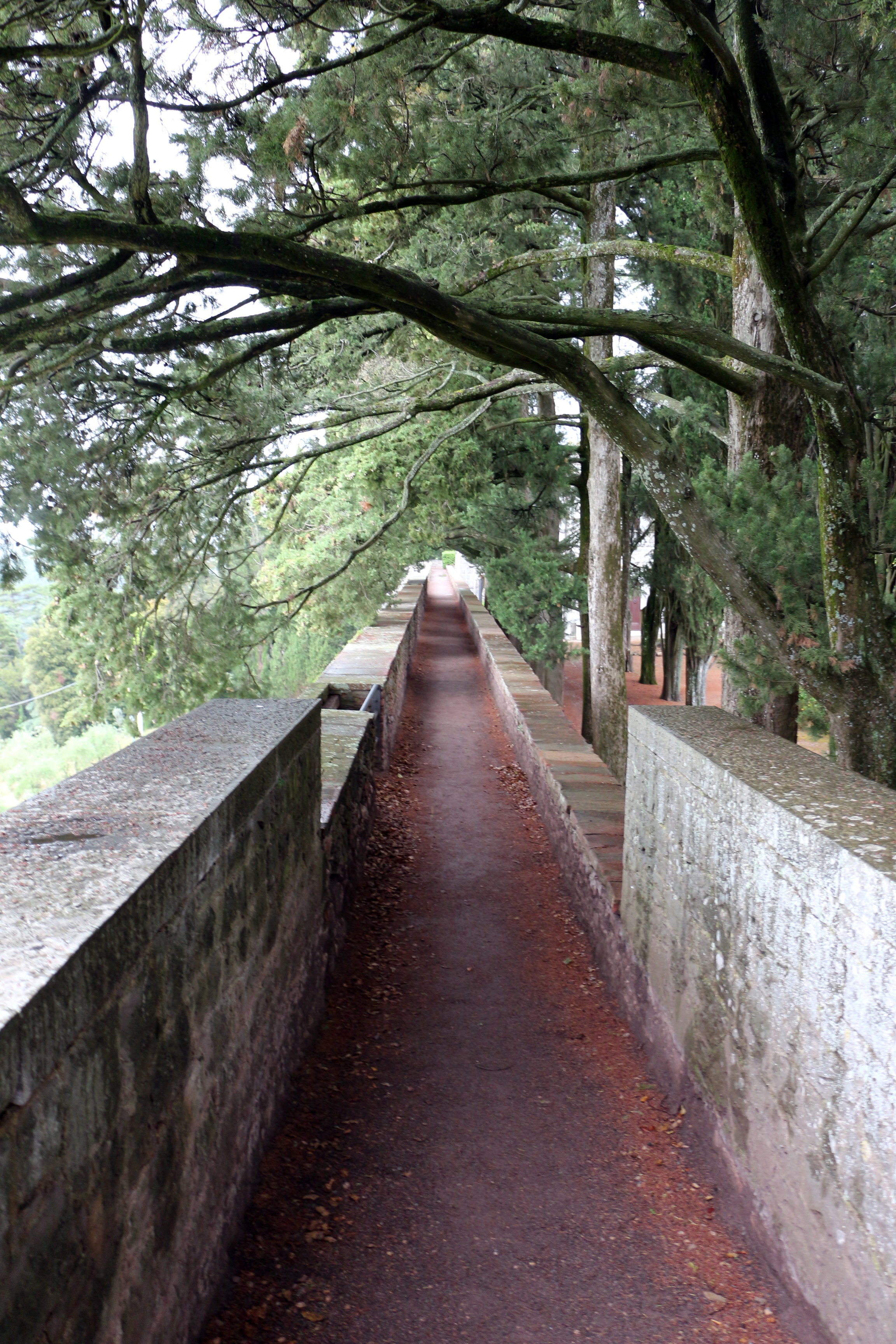 Castello di Brolio